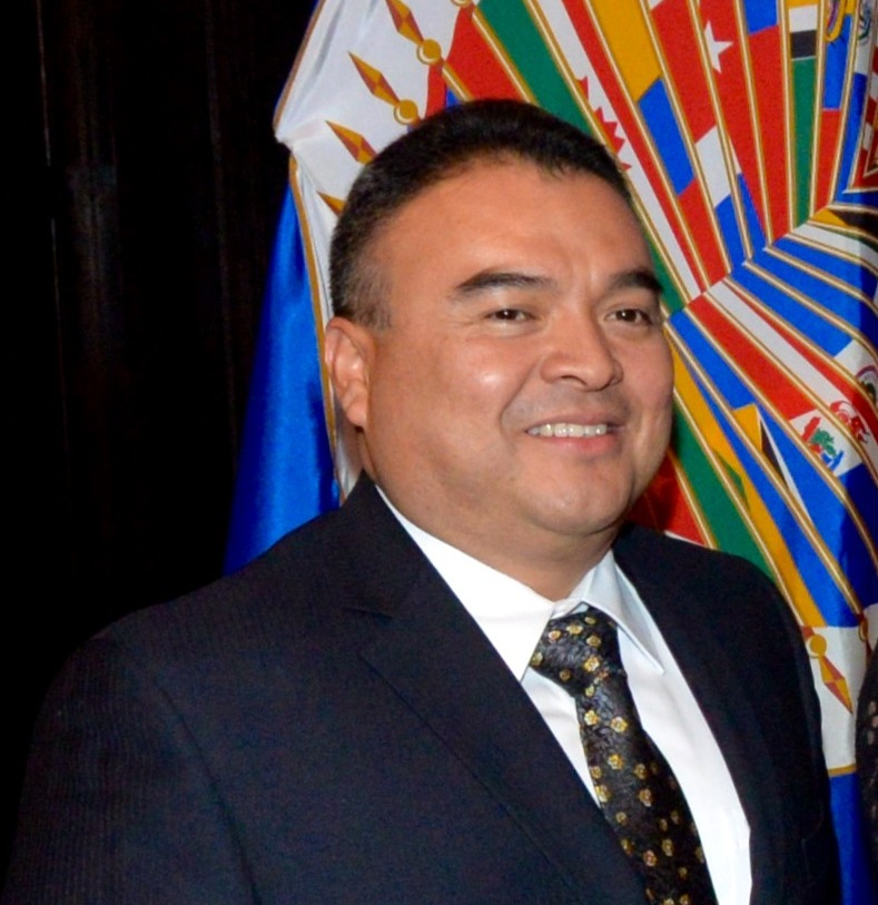 9th Assistant Secretary General of the Organization of American States